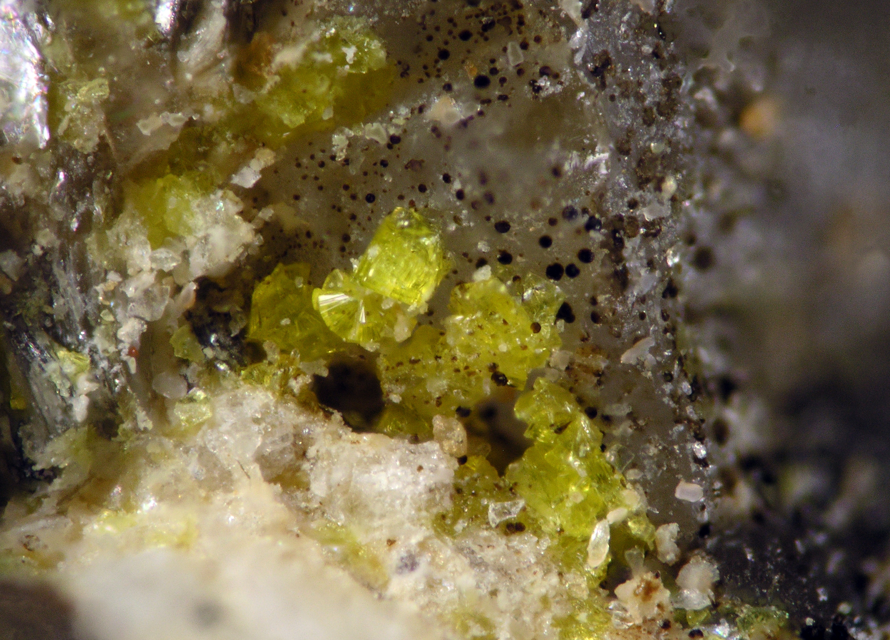 Moreauite Locality: Valdeíñigos, Tejeda de Tiétar, Cáceres, Extremadura, Spain Field of View: 1 mm Yellow crystal aggregates of Moreauite. Species confirmed by XRD, electron microprobe and Raman spectroscopy.